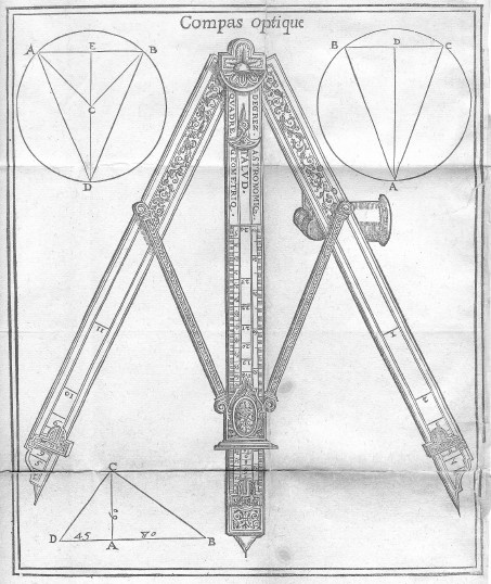 Illustration of a compass by Miles de Norry (1587).